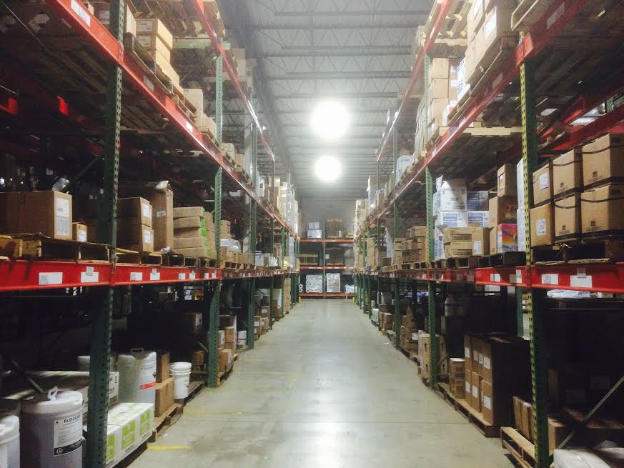 Supplyworks in Greenville, SC